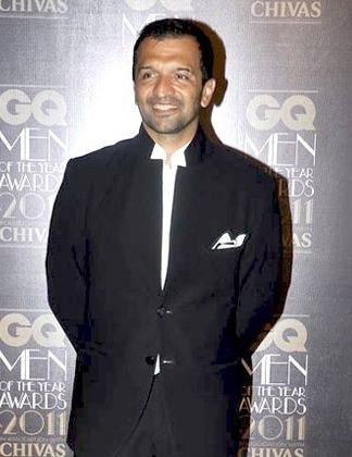 Fashion photographer Atul Kasbekar